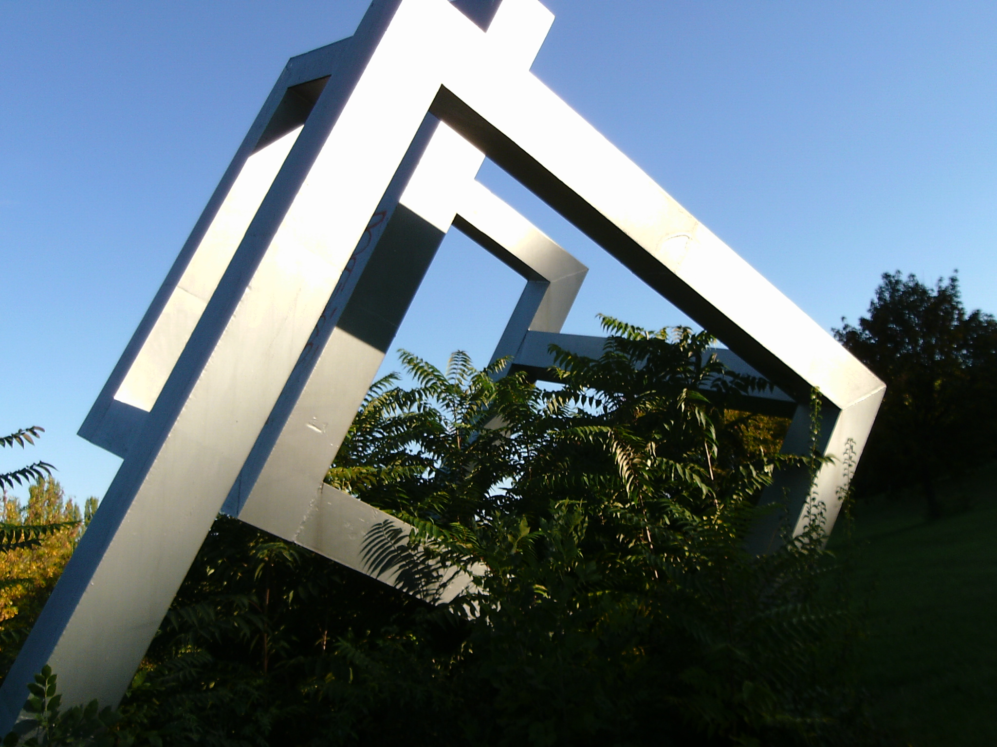 Dunaujvaros, Hungary